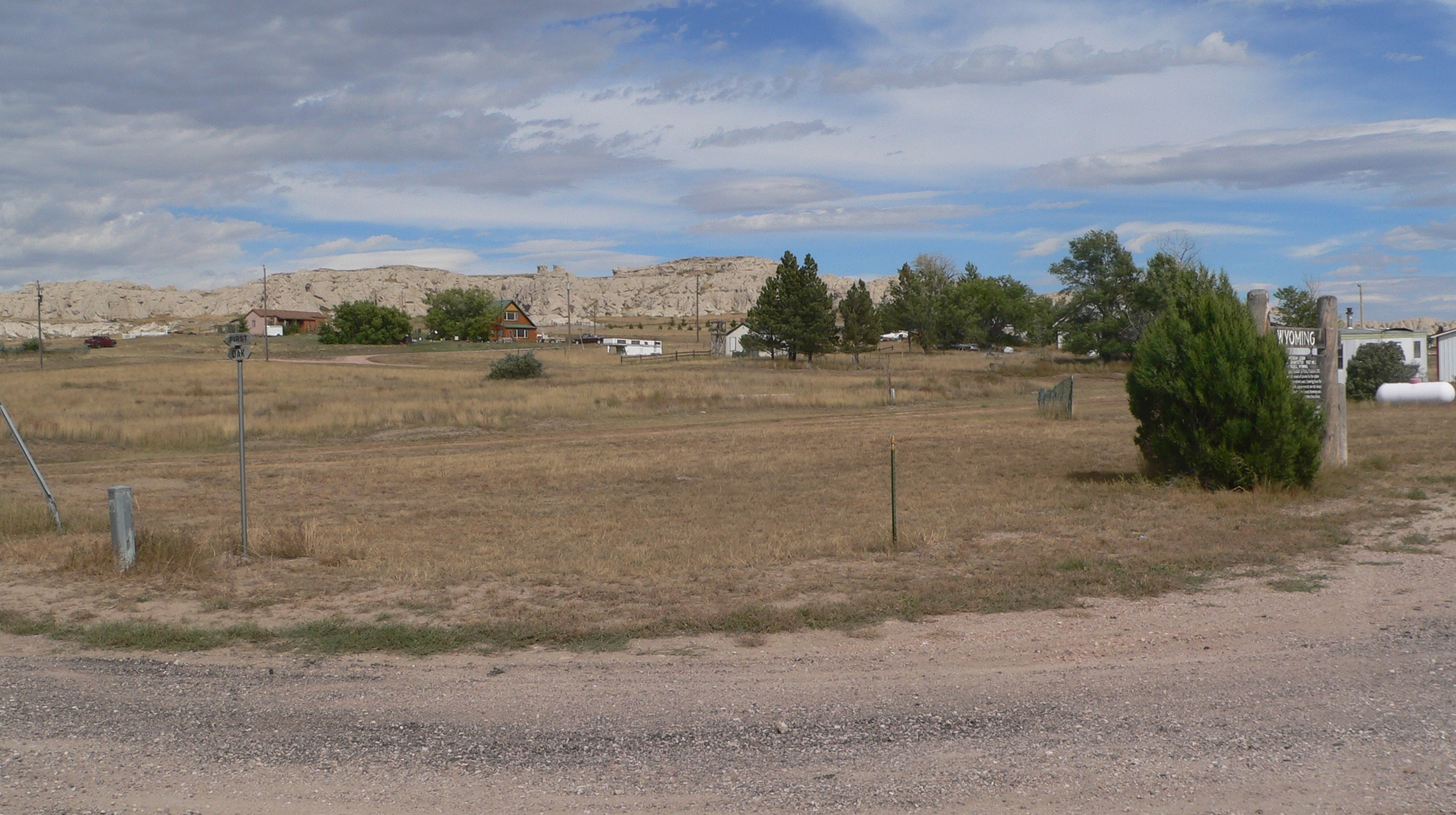 Vacant lot at corner of Oak Street and U.S. Highway 20 in Van Tassel, Wyoming, once occupied by the American Legion's Ferdinand Branstetter Post No. 1. View is from the southwest.